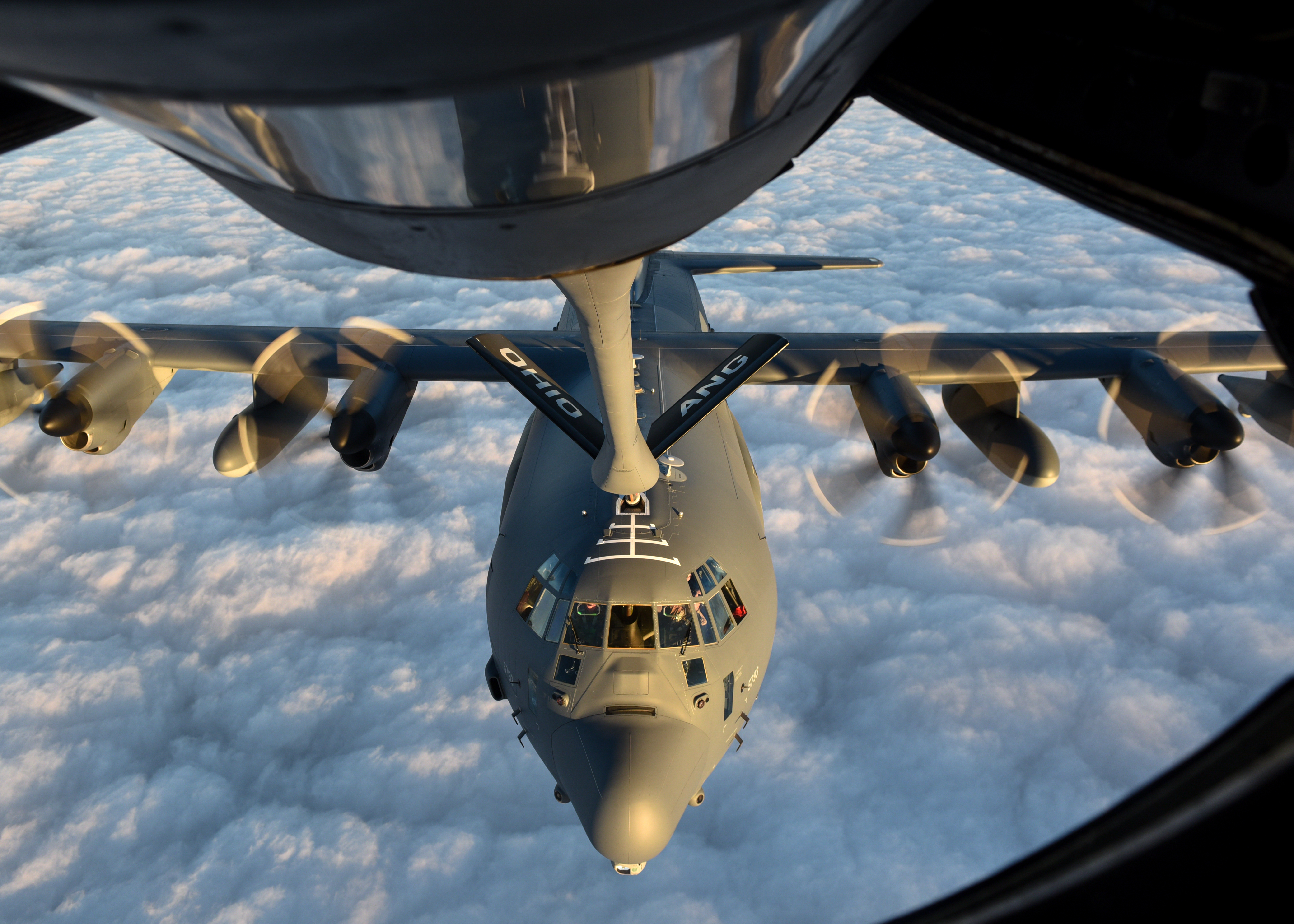 An MC-130J Commando II receives fuel from a KC-135R Stratotanker during a training sortie in support of Emerald Warrior 17 March 7, 2017. Emerald Warrior is a U.S. Special Operations Command exercise during which joint special operations forces train to respond to various threats across the spectrum of conflict. The MC-130J is assigned to the 9th Special Operations Squadron and the KC135R is assigned to Ohio Air National Guard’s 121st Air Refueling Wing. (U.S. Air National Guard photo/Senior Airman Ashley Williams)